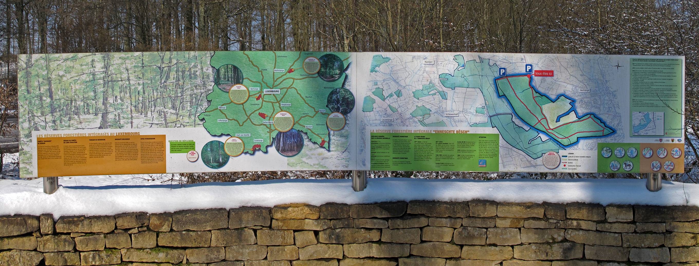 Information plate about the natural reserve Ënneschte Bësch, Luxembourg